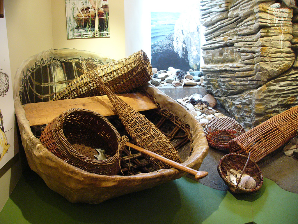 Inside Kilmartin's museum, Scotland.